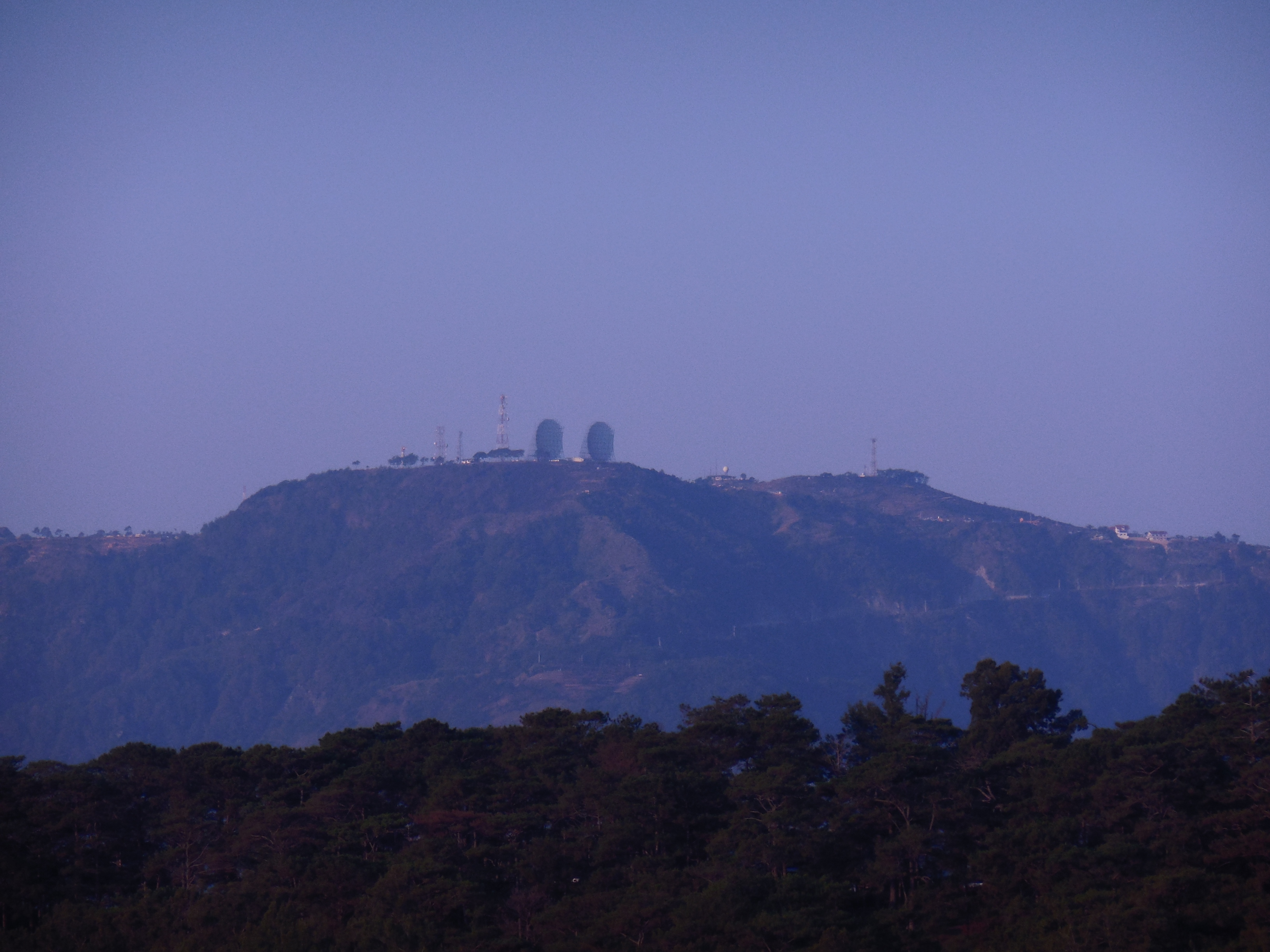 Mount Kabuyao in Tuba, Benguet showing the two radar dishes operated by the Philippine Air Force.